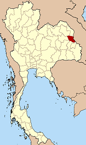 Map of Thailand highlighting the Mukhadan province